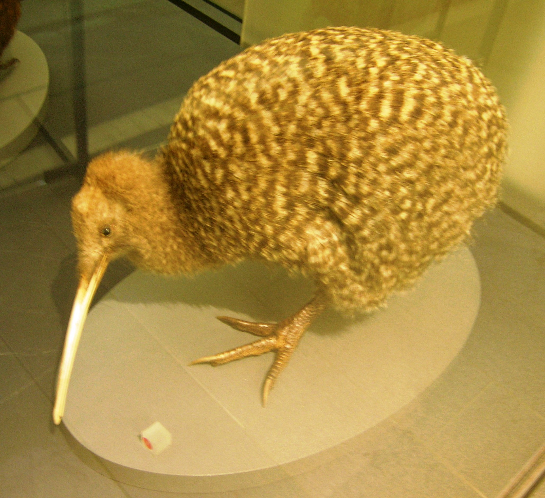 Great spotted kiwi, apteryx haastii, Auckland War Memorial Museum